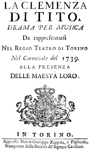 Giuseppe Arena - La clemenza di Tito - titlepage of the libretto - Turino 1739